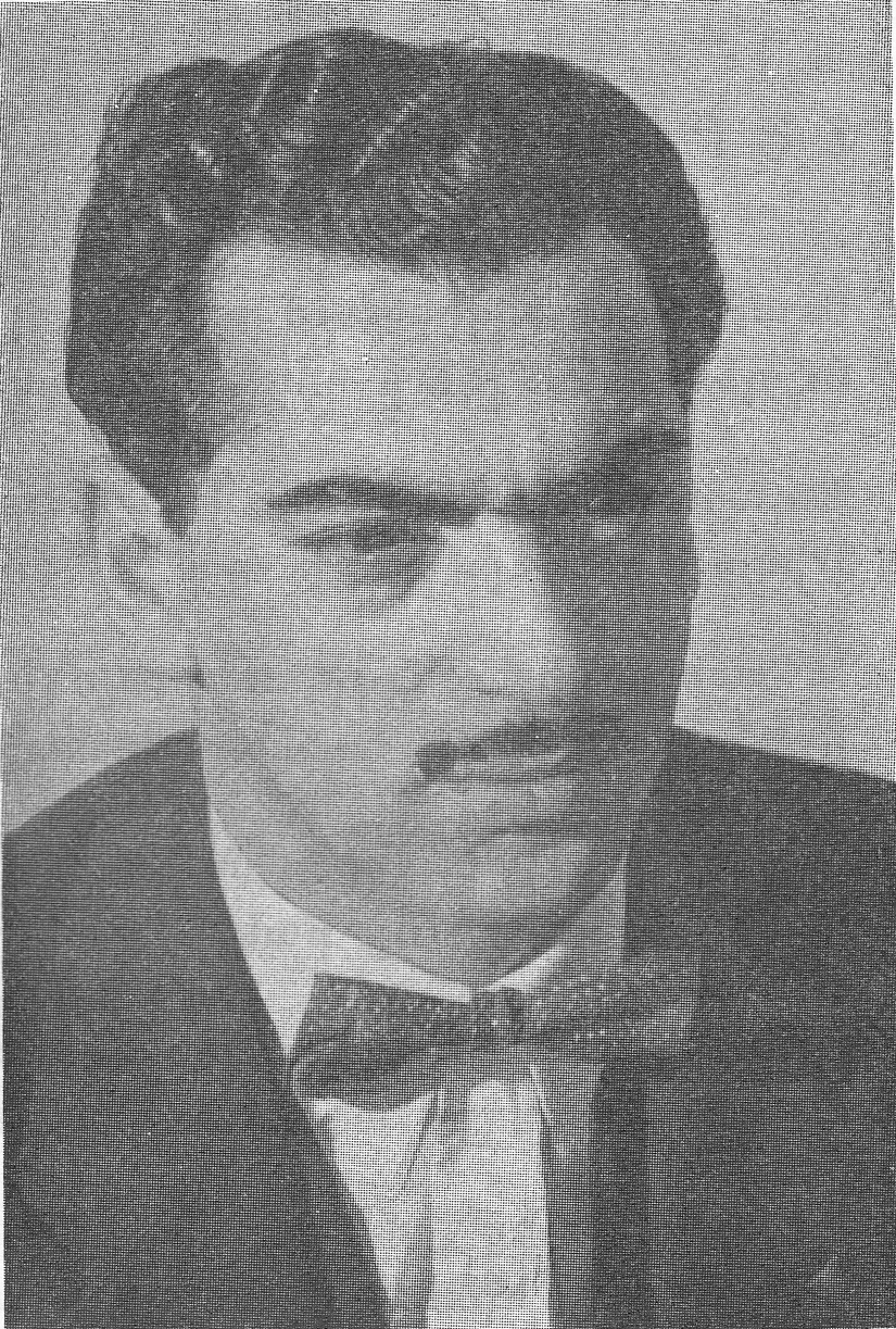 Arshavir Mkrtich (born Arshavir Mkrtchian), Iranian Armenian poet. Published in Iranahay Ardi Groghner (Modern Iranian Armenian Writers), Modern publishing house, Tehran, 1964.